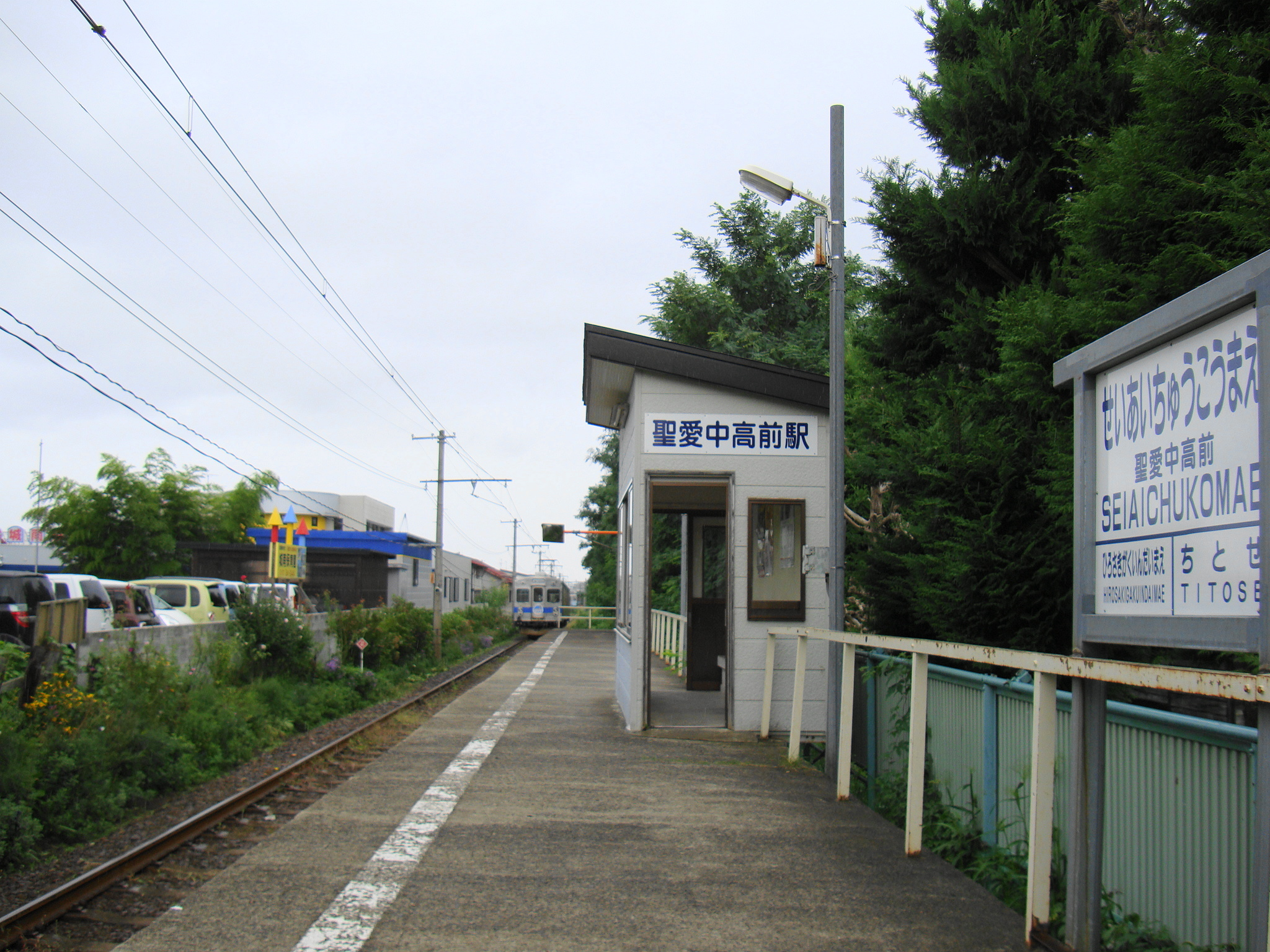 Seiai Chūkō-mae Station